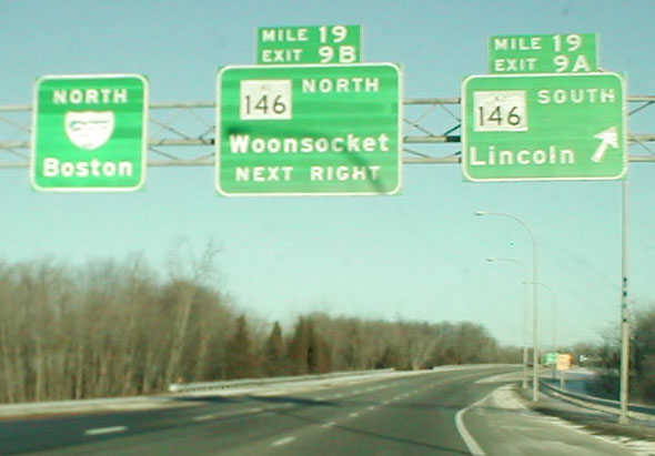 Mile tabs on I-295 north in Rhode Island. Taken January 31, 2004 by User:SPUI.